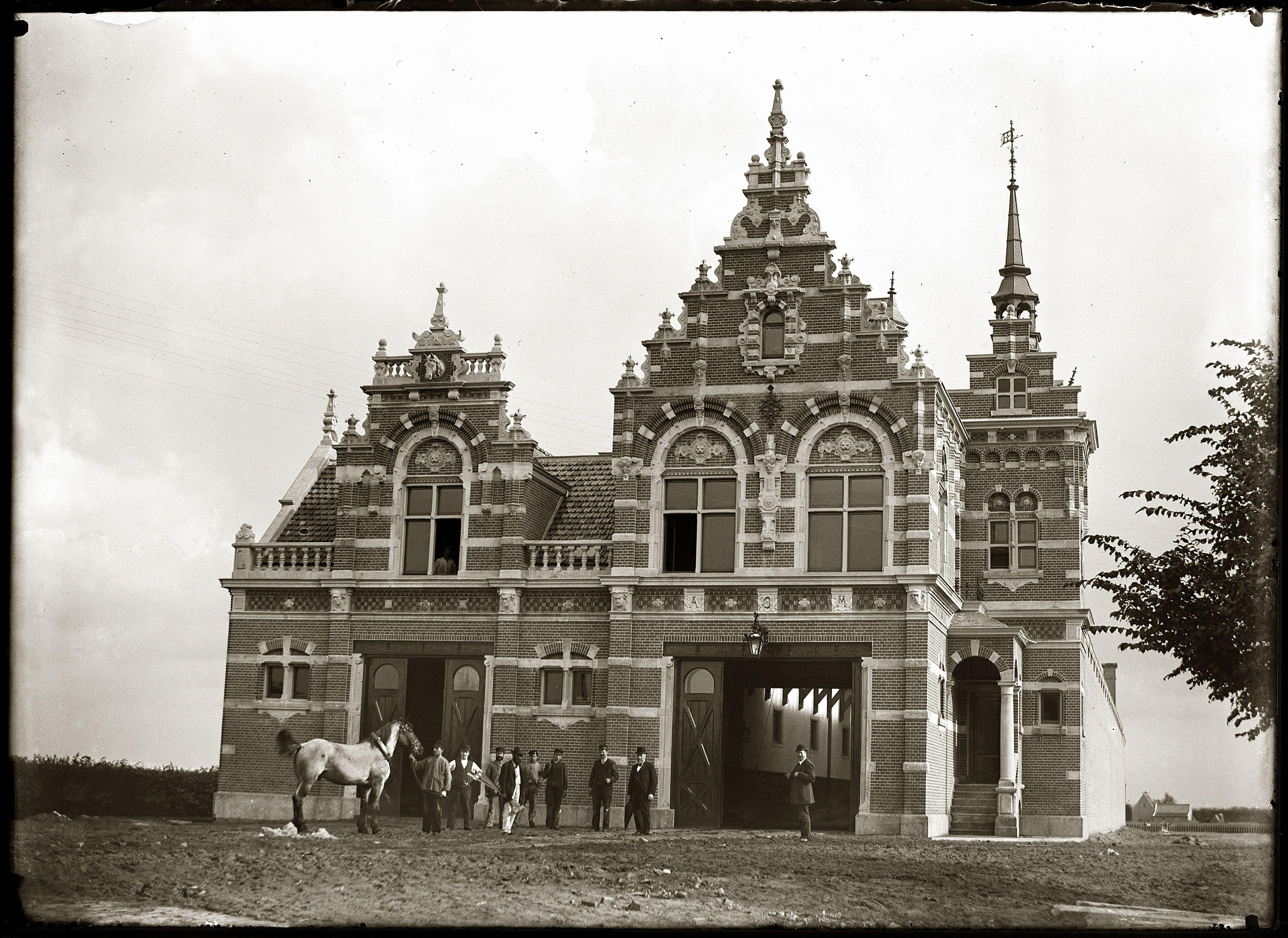 Tram depot and stables, Koninginneweg 27-29, Amsterdam [now a Police Station].